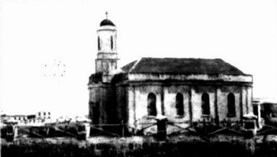 There have been two St John's Churches in Fremantle. THe first was opened on 4 August 1843 and it was at the centre of King's Square at the end of the Hight Street.